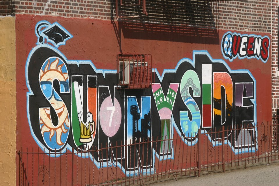 Wall mural on a building in Sunnyside, New York